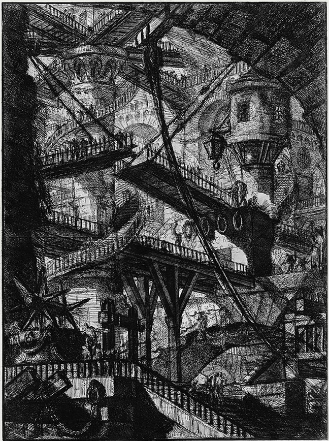 Giovanni Battista Piranesi: Untitled etching (called "The Drawbridge"), plate VII (of 16) from the series The Imaginary Prisons (Le Carceri d'Invenzione), Rome, 1761 edition (reworked from 1745).